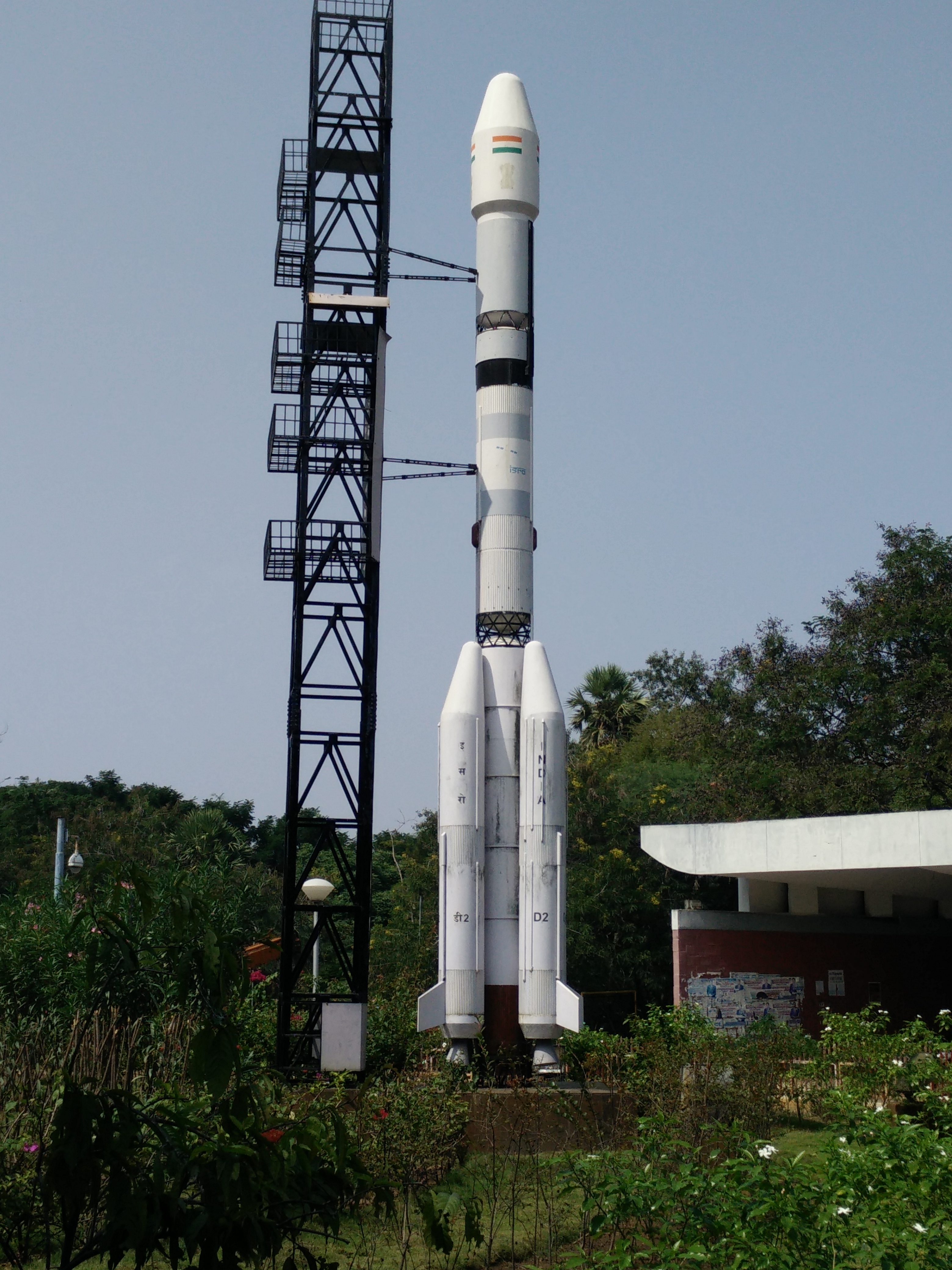 ISRO's GSLV at SHAR entrance 2